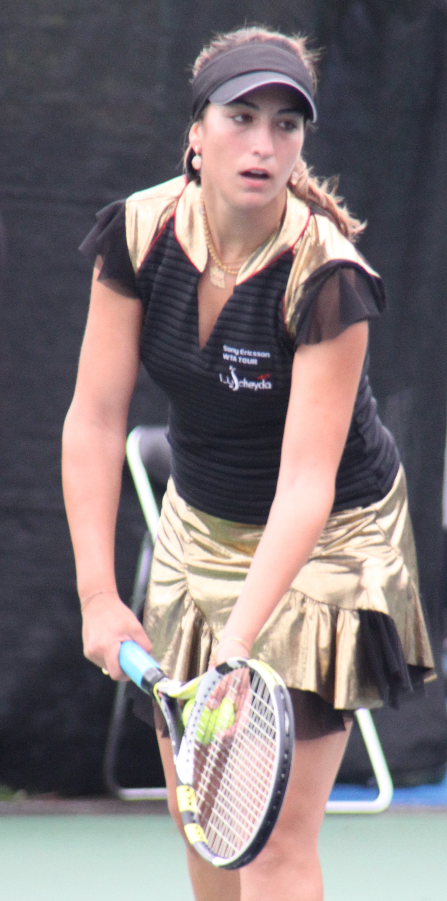 Aravane Rezai